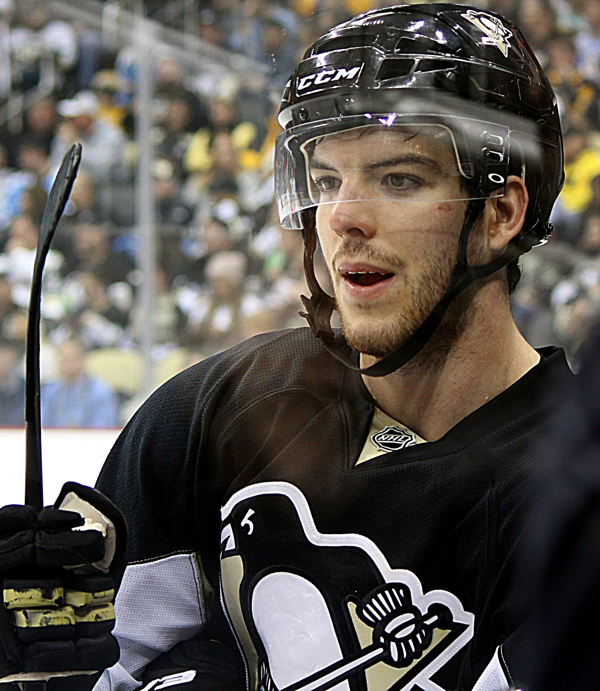 Pittsburgh Penguins defenseman Simon Despres during a game against the Calgary Flames, December 12, 2014, at Consol Energy Center in Pittsburgh, PA.